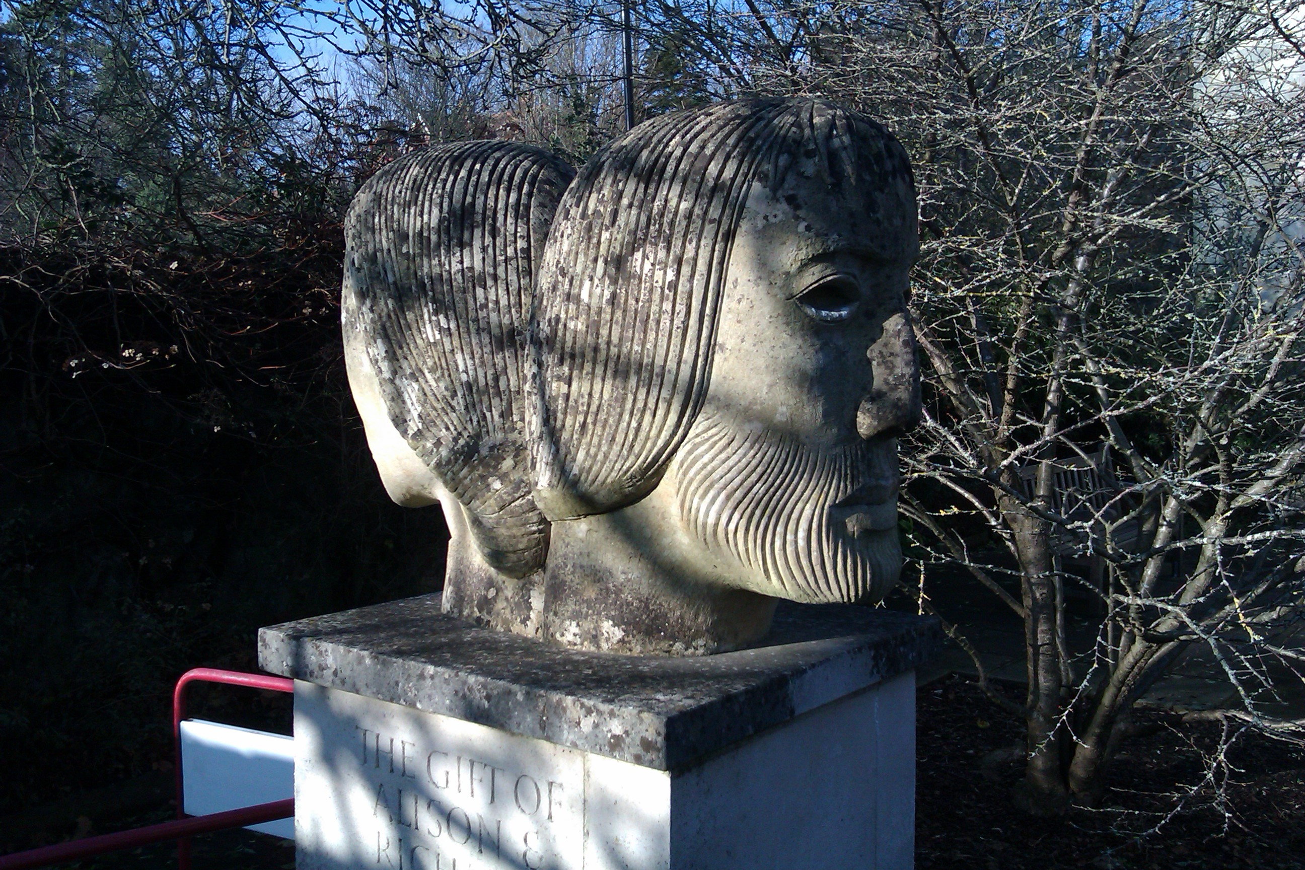 Public sculpture in Grange Gardens, Lewes by John Skelton. On plinth with engraved name/date of sculpture, and 'Gift of Alison and Richard Jolly'.